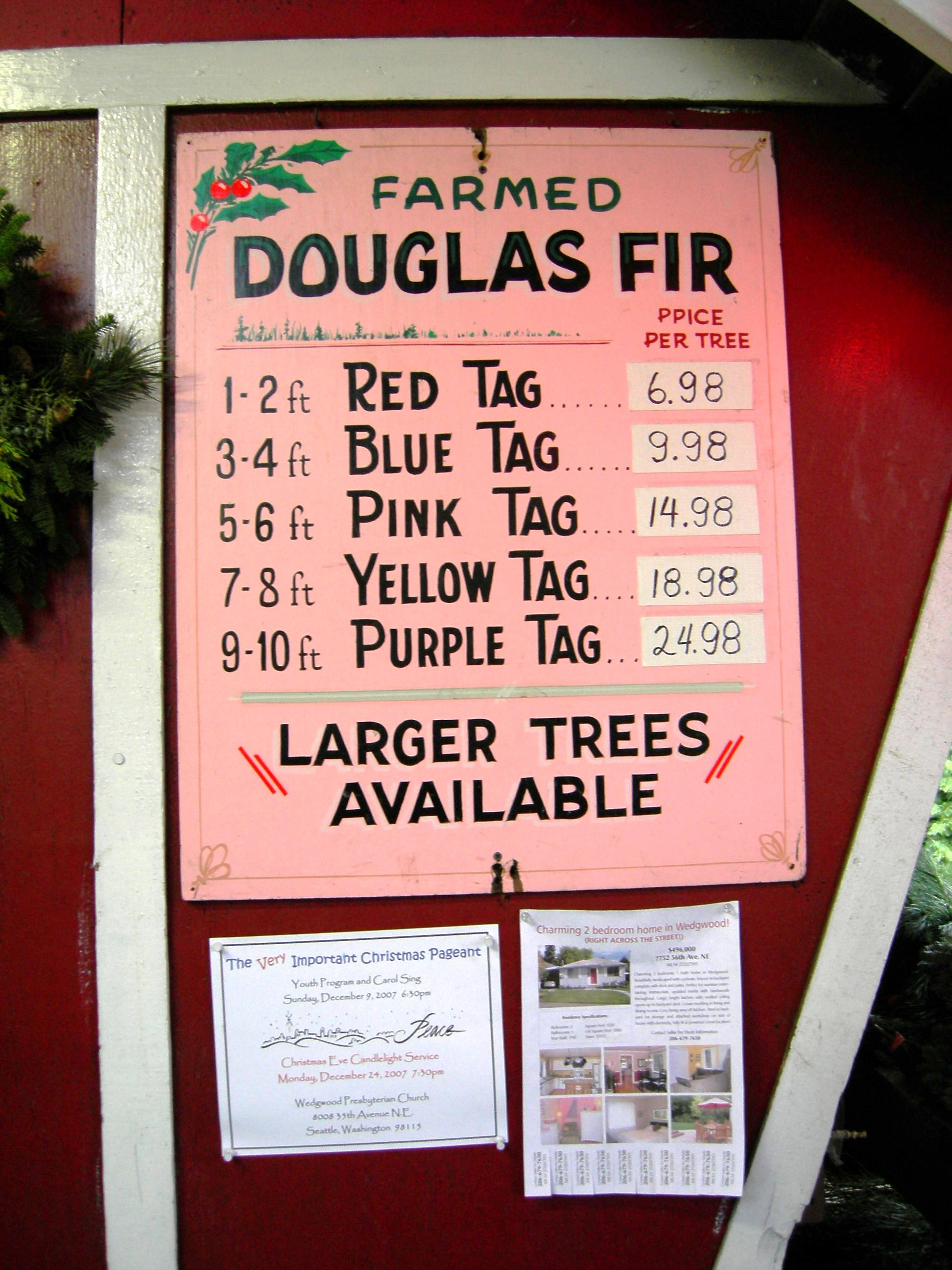 Price list for Douglas Firs of various sizes, Hunter's Tree Farm lot in the 7700 block of 35th Avenue NE, Wedgwood, Seattle, Washington. The actual Hunter's Tree Farm is in the Skokomish Valley, but they retain this plot of land in the city to sell Christmas trees every year. (It's also used in the summer and early autumn to sell berries, but not for much else.)